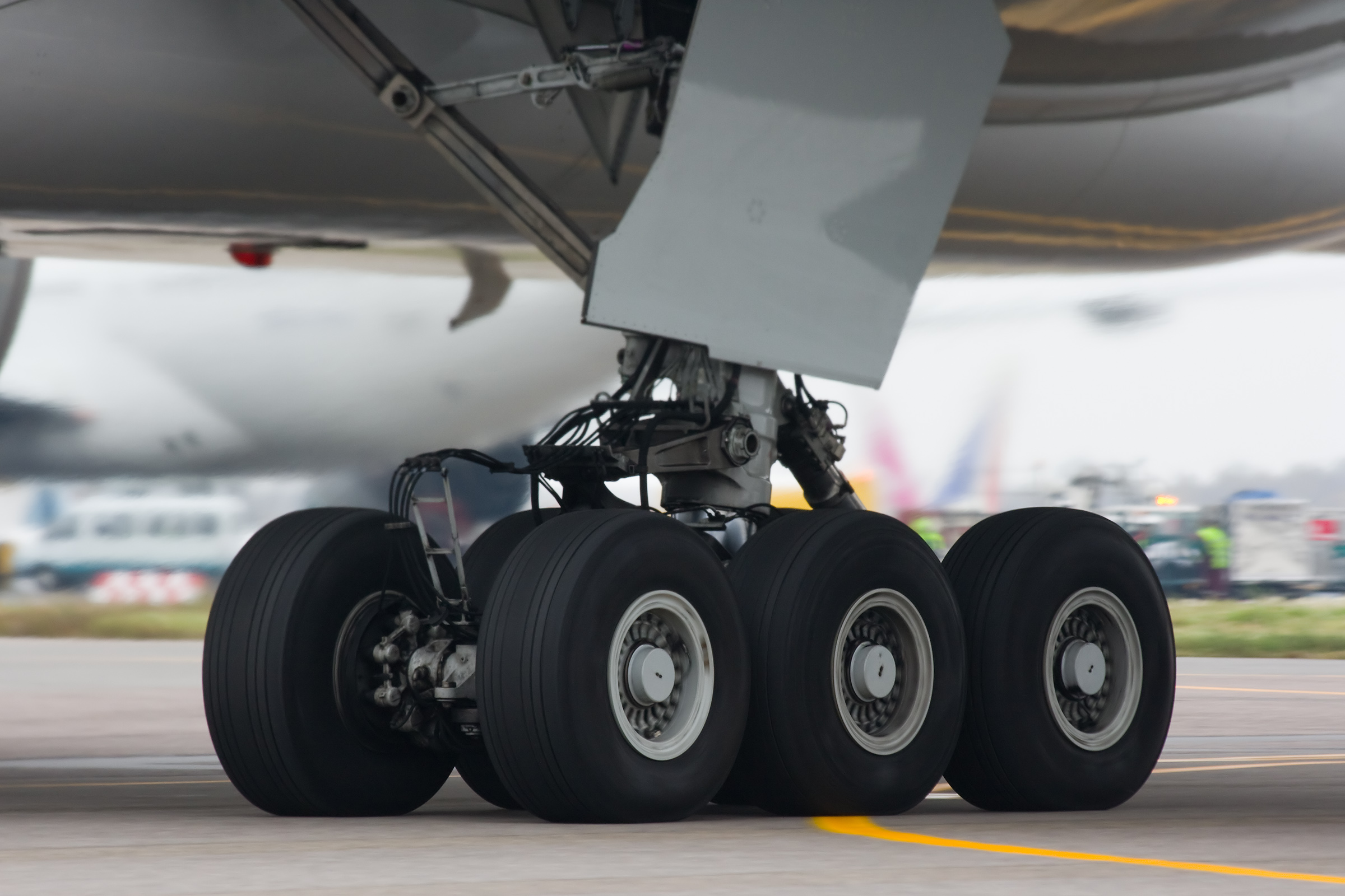 Boeing-777-300 chassis